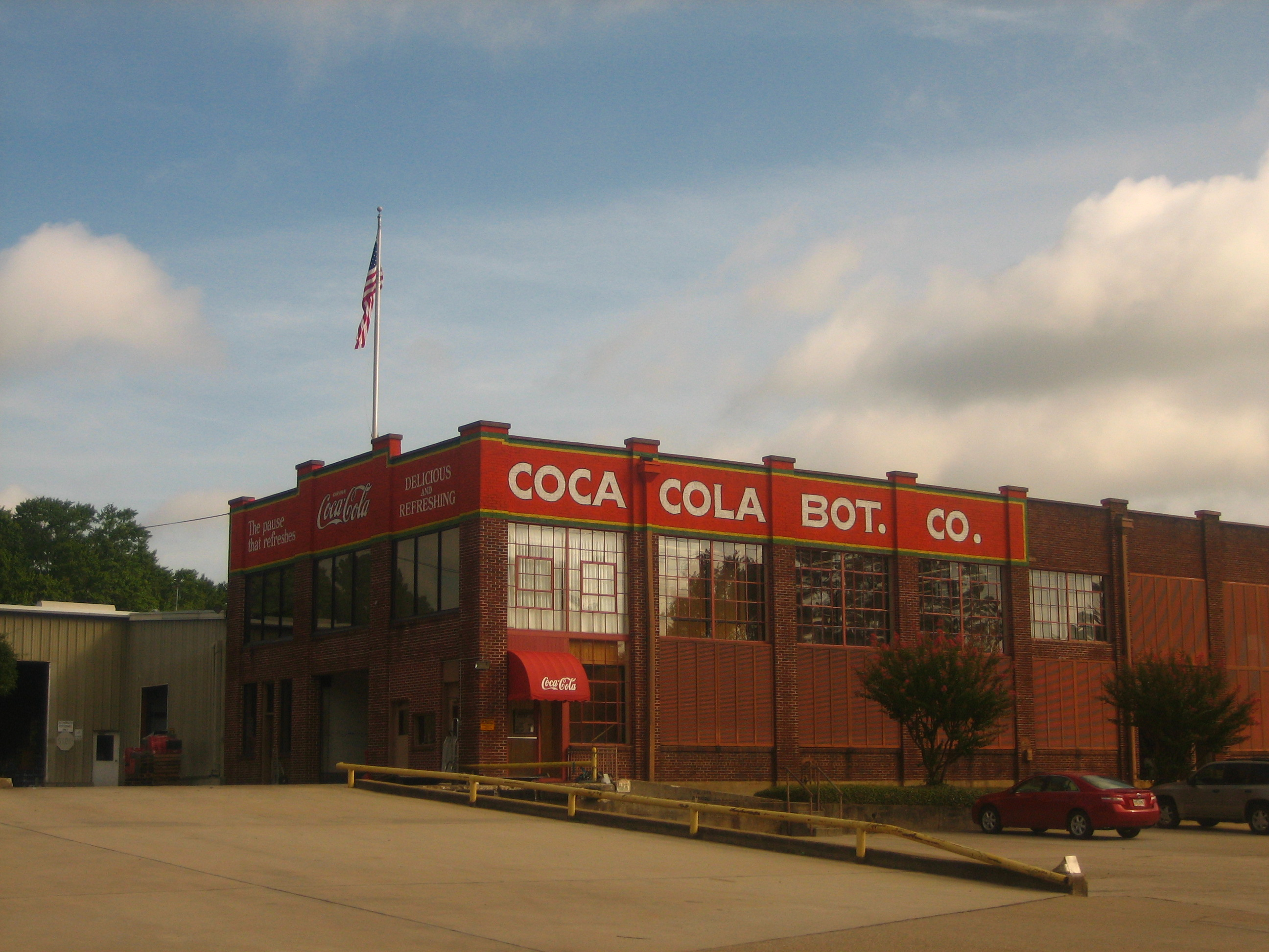 I took photo on Aug. 6, 2008.Billy Hathorn (talk) 21:29, 14 August 2008 (UTC)